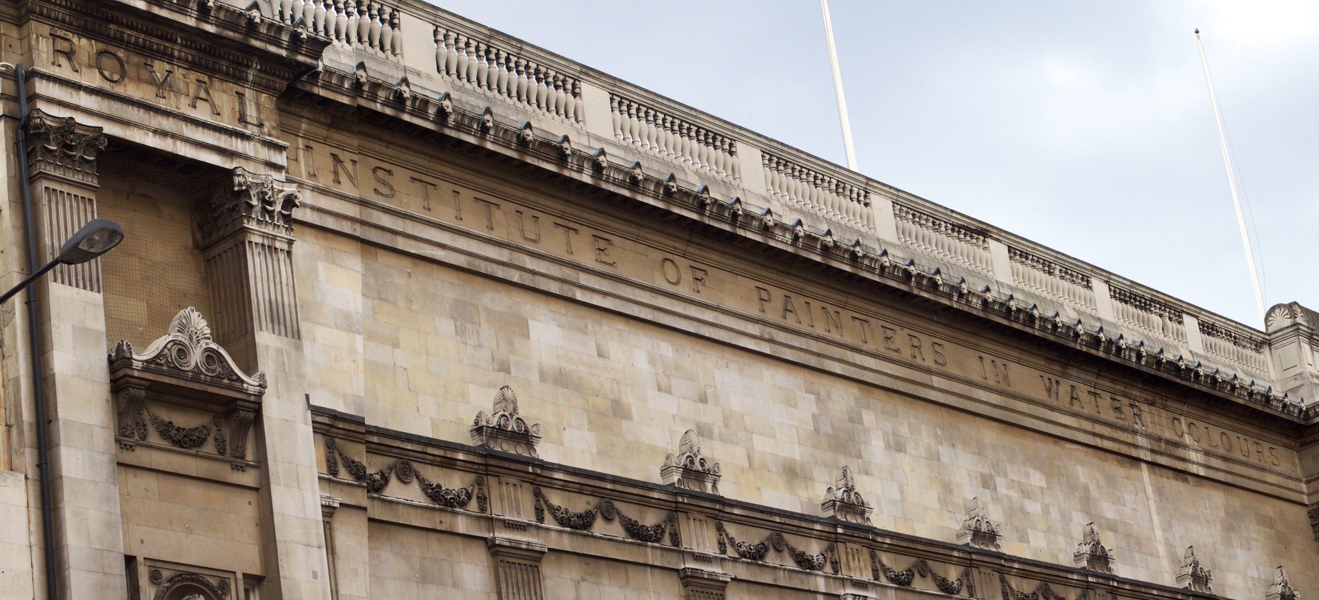 Royal Institute of Painters in Water Colours building